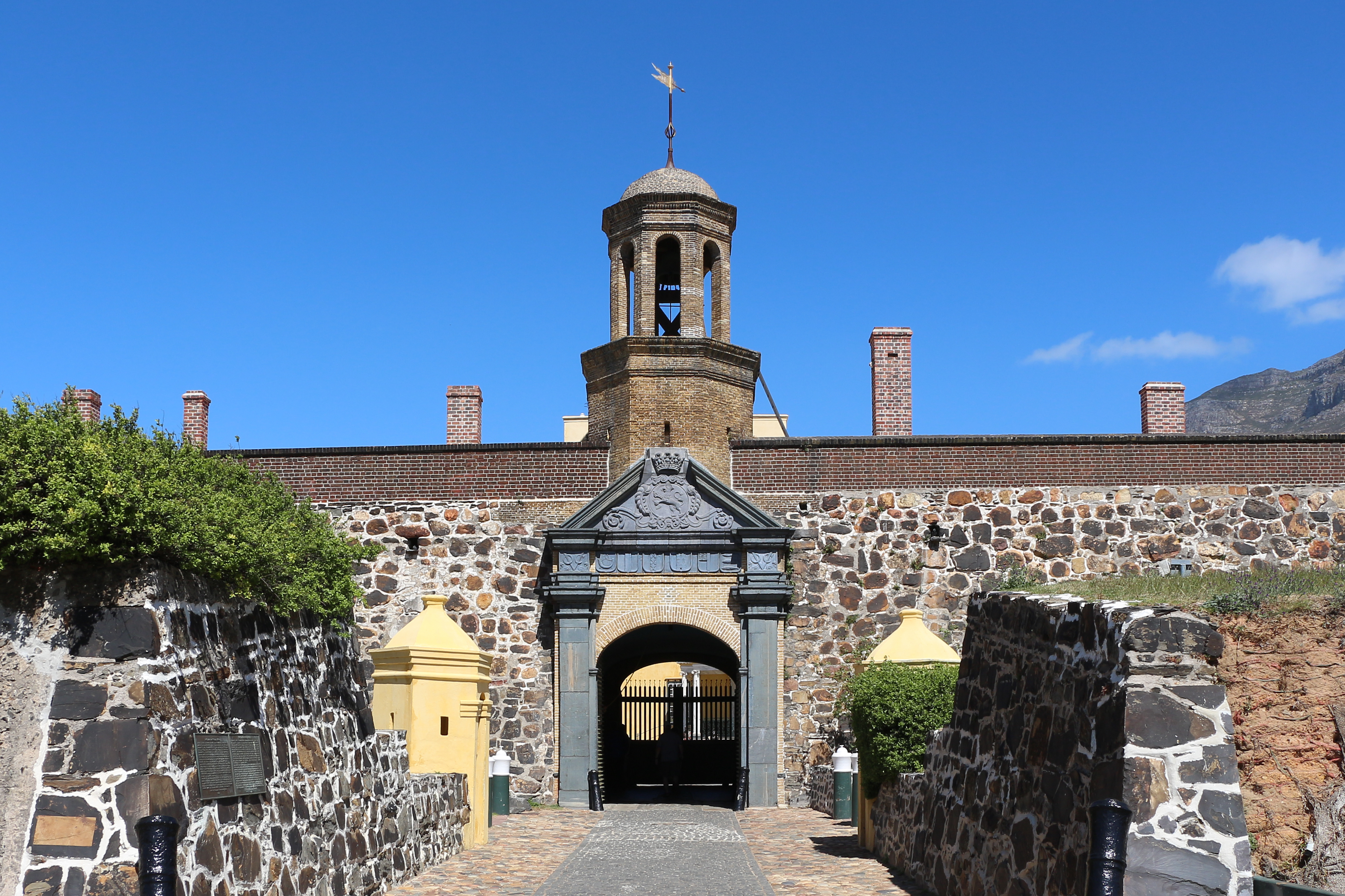 Entrance of Castle of Good Hope, Cape Town, South Africa